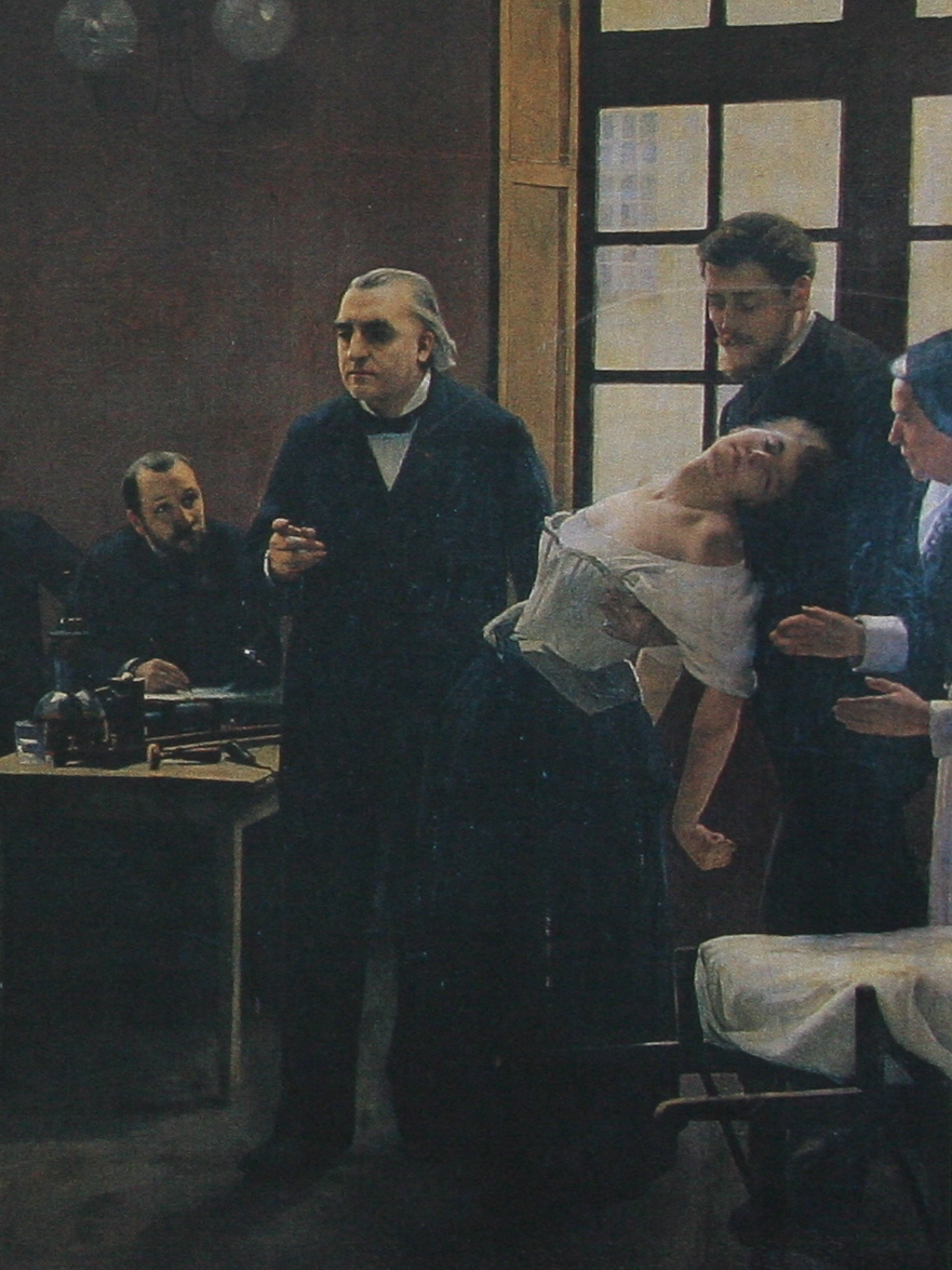 Professor Jean-Martin Charcot teaching at the Salpêtrière in Paris, France showing his students a woman ("Blanche" (Marie) Wittman) in an hysterical fit". Wittman is supported by Charcot's student Joseph Babinski.